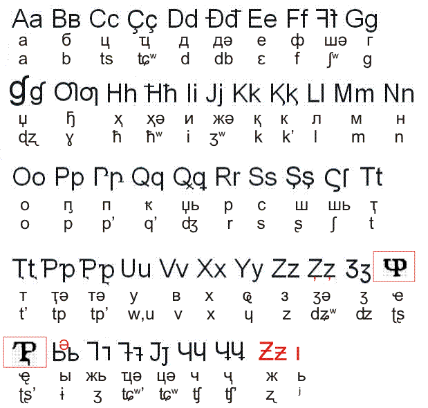 Abkhaz latin-based alphabet used in 1928-38 with corresponding current Cyrillic letters and IPA pronounciation.